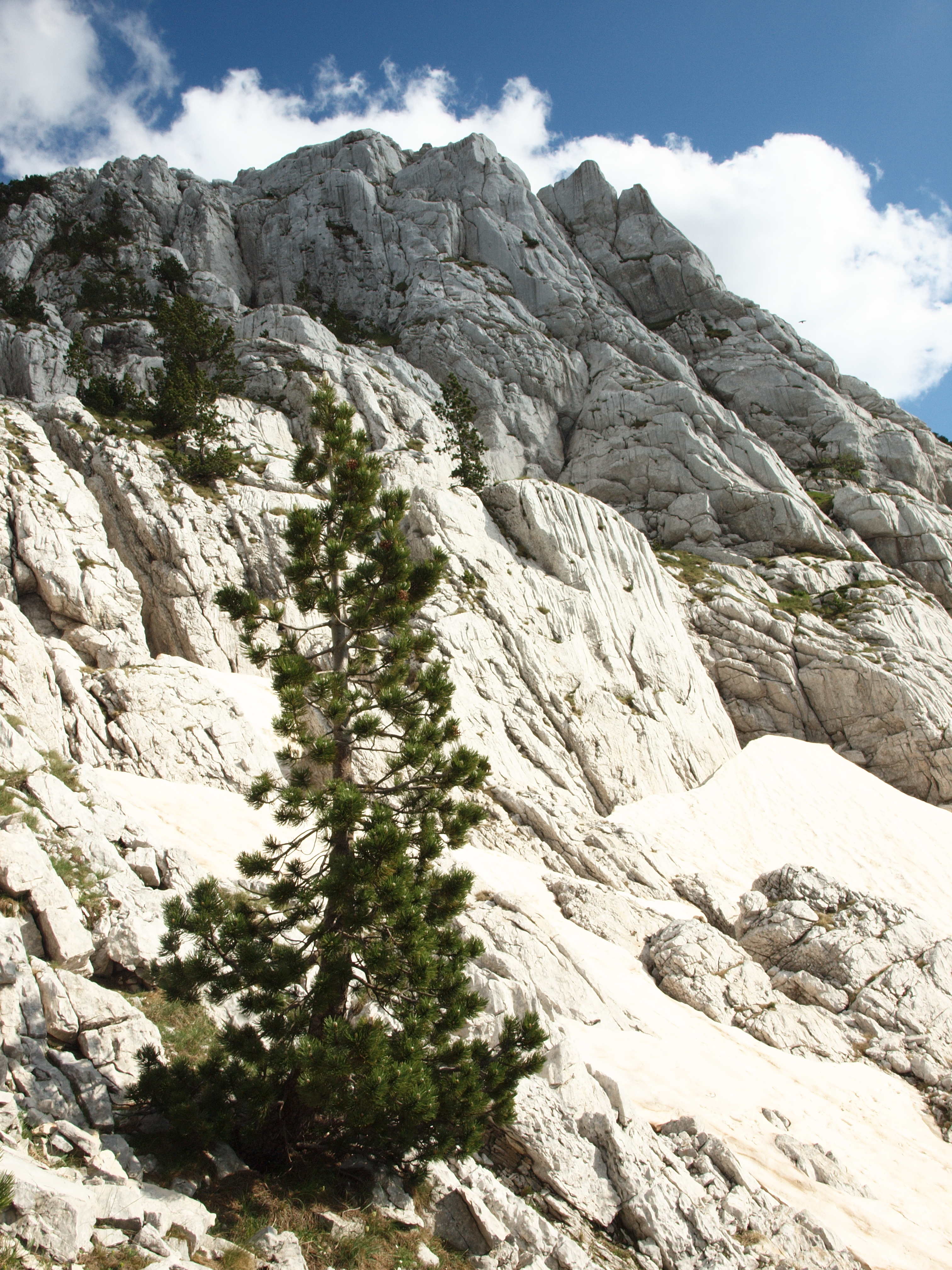 Summit of Zubacki kabao, Orjen Montenegro. Tree is Pinus heldreichii.